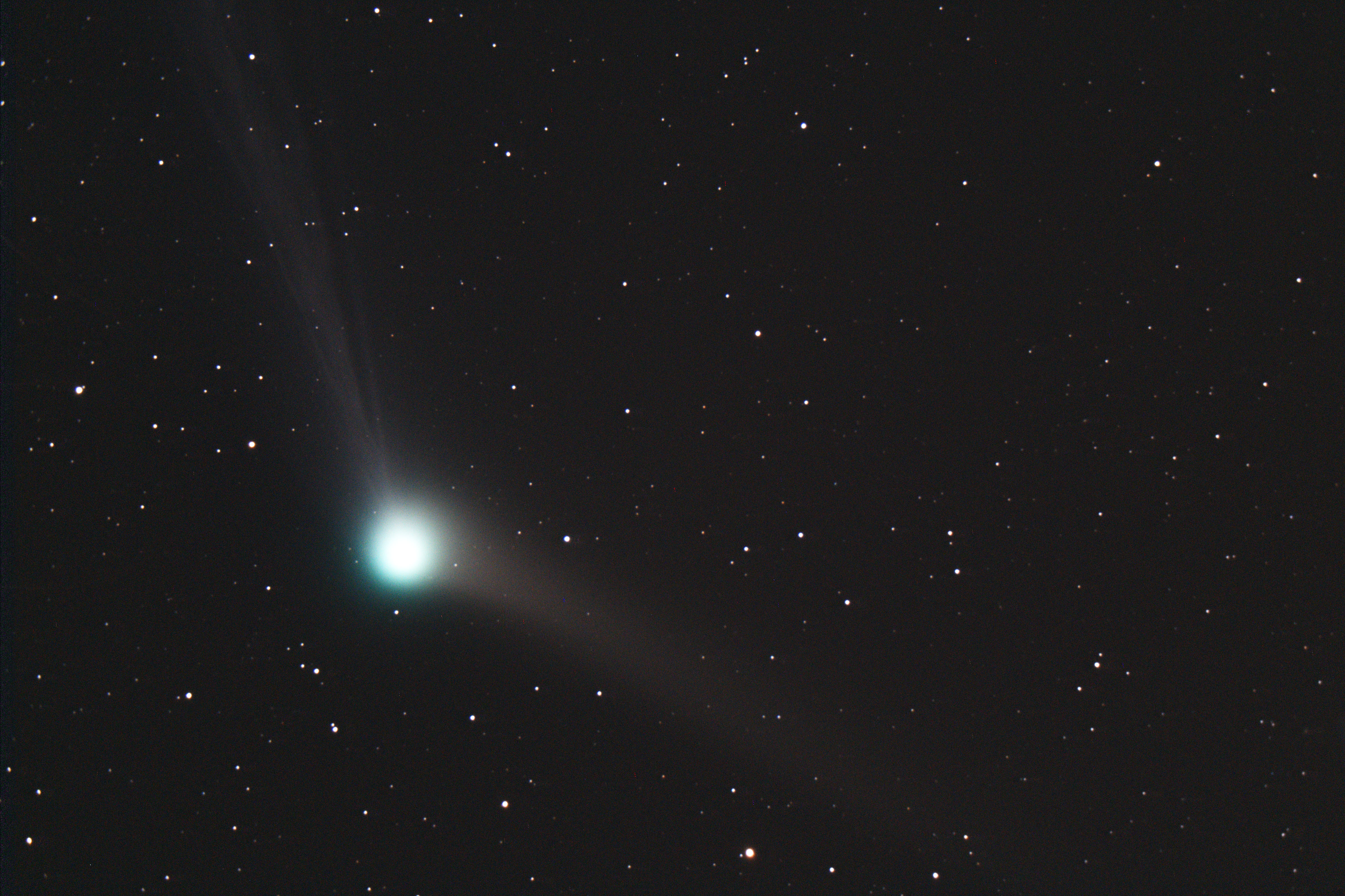 Comet C/2013 US10 Catalina in Virgo constellation just before dawn of 09 Dec 2015. One can clearly see its two tails. The first one (upper left corner) is a narrow gaseous tail directed against the sun by the solar wind. The second one (lower right corner) is a widespread dust tail aimed along the comet's orbit. Image shot from Karabi-Yaila (1000m above sea level), Crimea, Russia. Shot with Canon 600D DSLR mounted on Celestron 8" SCT with focal reducer (focal length 1280mm) on Celestron AVX mount with NexGuide autoguide on 80mm Guidescope. Stack of 5 single exposures 5 minutes each (calibrated by bias, dark and flat frames). Processed in PixInsight+Photoshop.